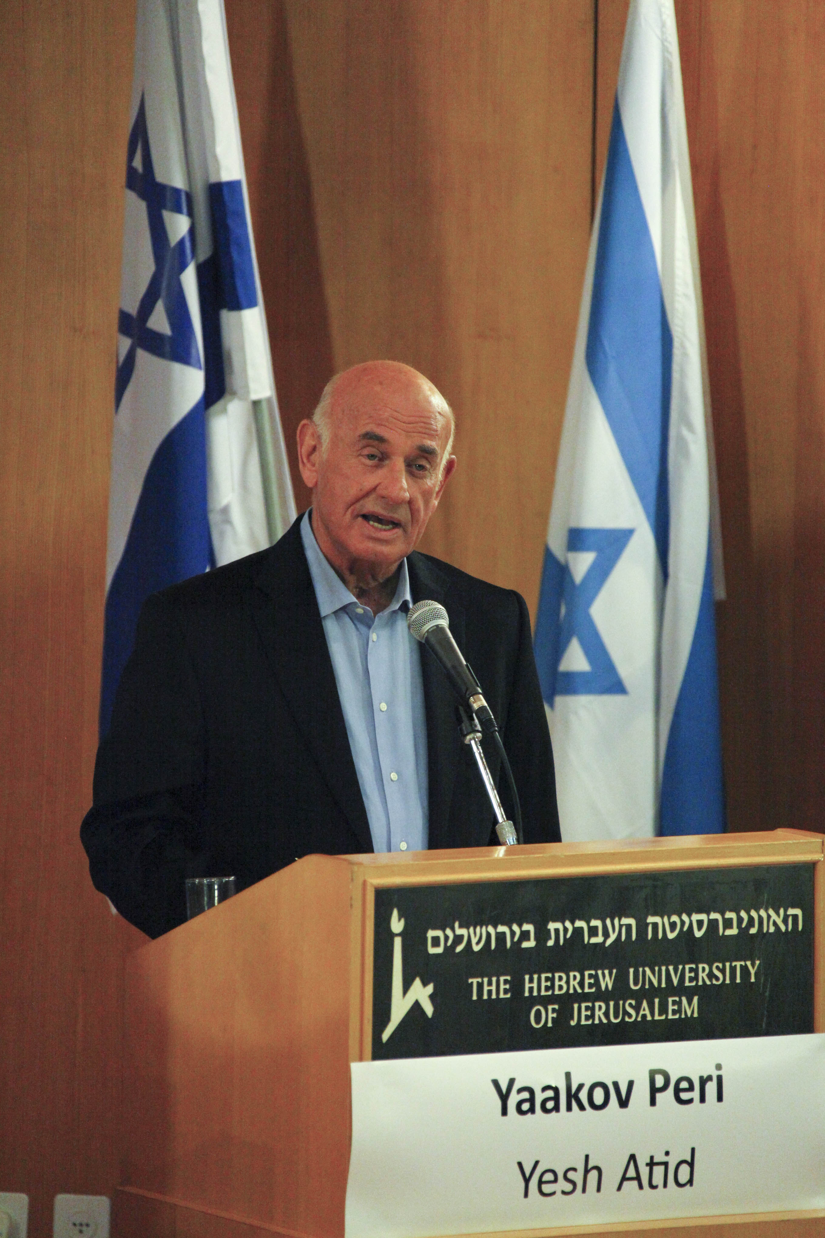 Senior representatives of Israel’s major political parties addressing scores of journalists and diplomats at The Israel Project’s pre-election foreign-policy debate. (Mati Milstein/The Israel Project)